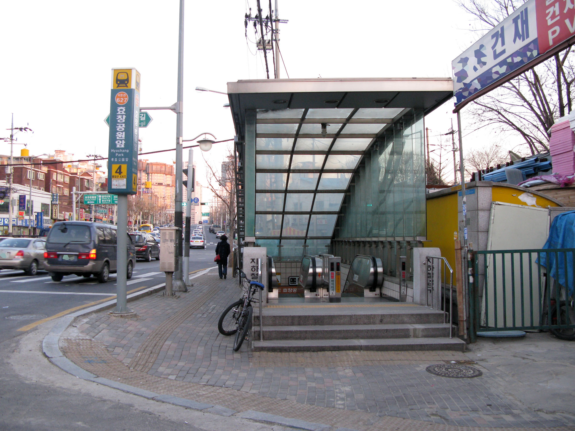 Seoul Subway Line 6 Hyochang Park Station Entrance No. 4